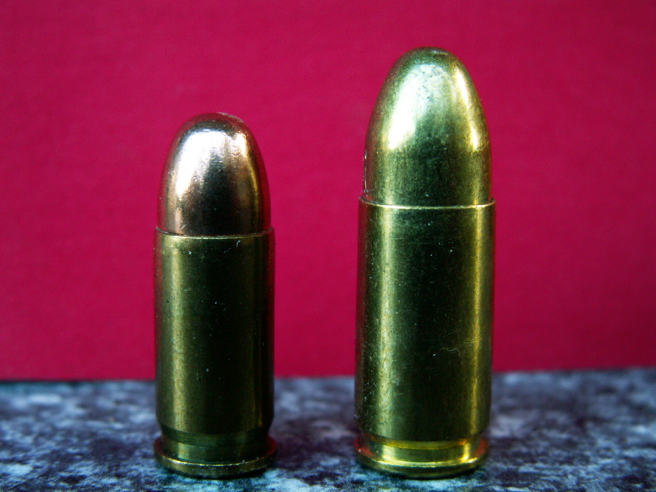 On the left is 7,65 mm Browning bullet in comparison with 9 x 19 Luger bullet on the right.